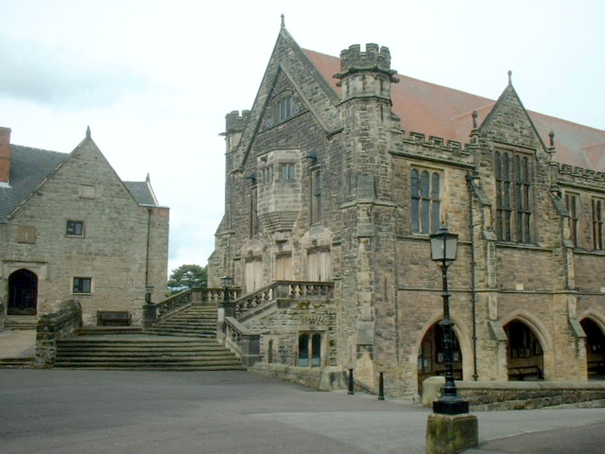 Repton heads Derbyshire